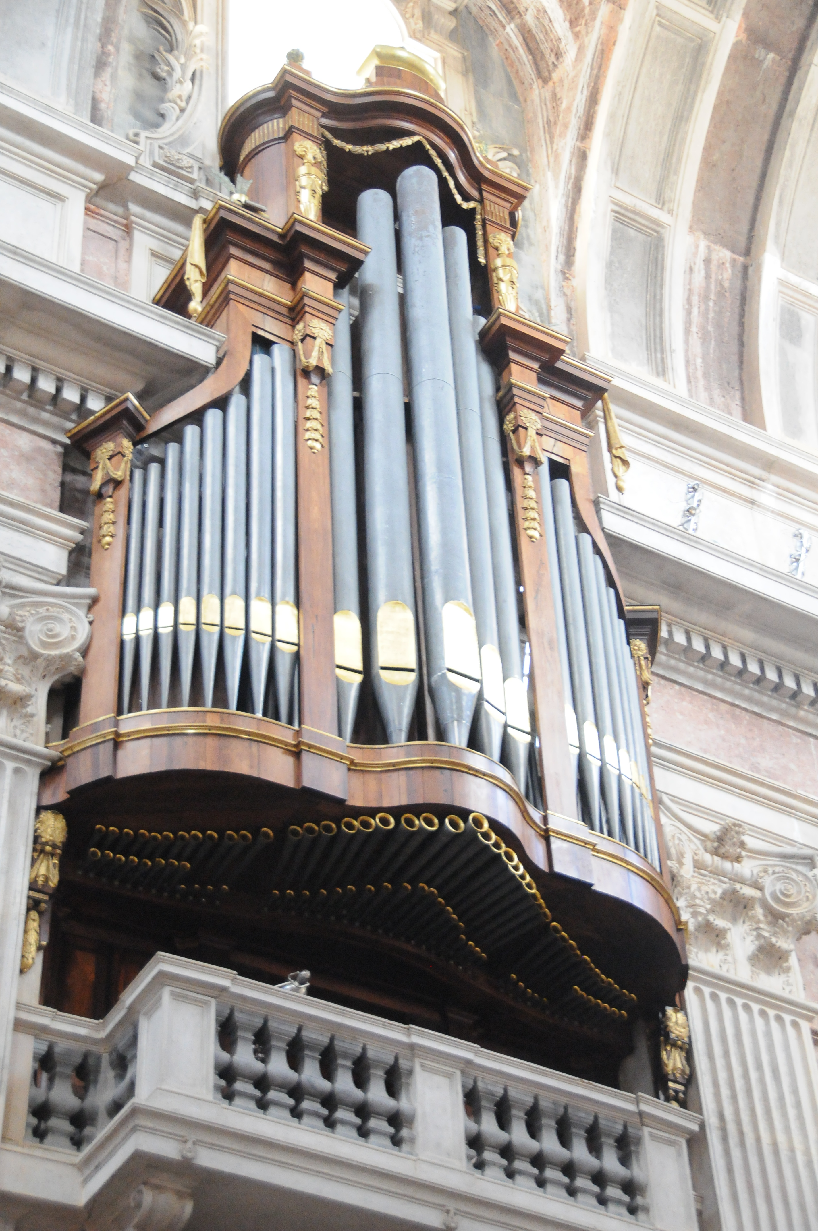 Pipe Organ in Interior of Mafra Church